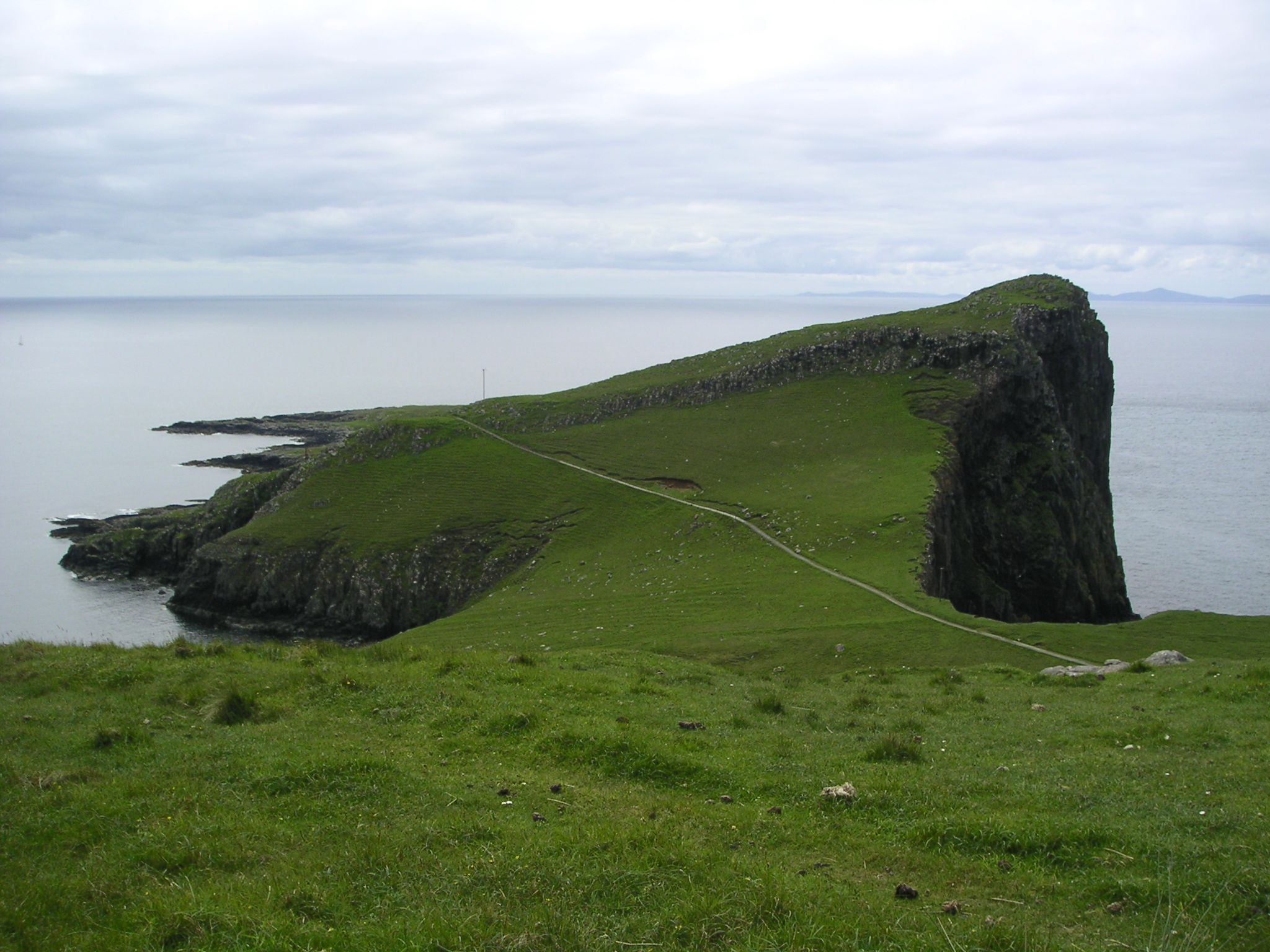 Neist Point, Skye, Scotland